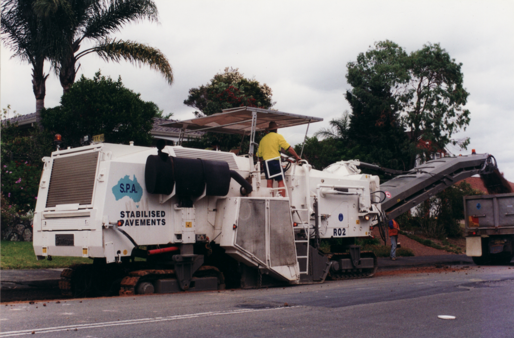 A Wirtgen road pavement profiling (milling) machine